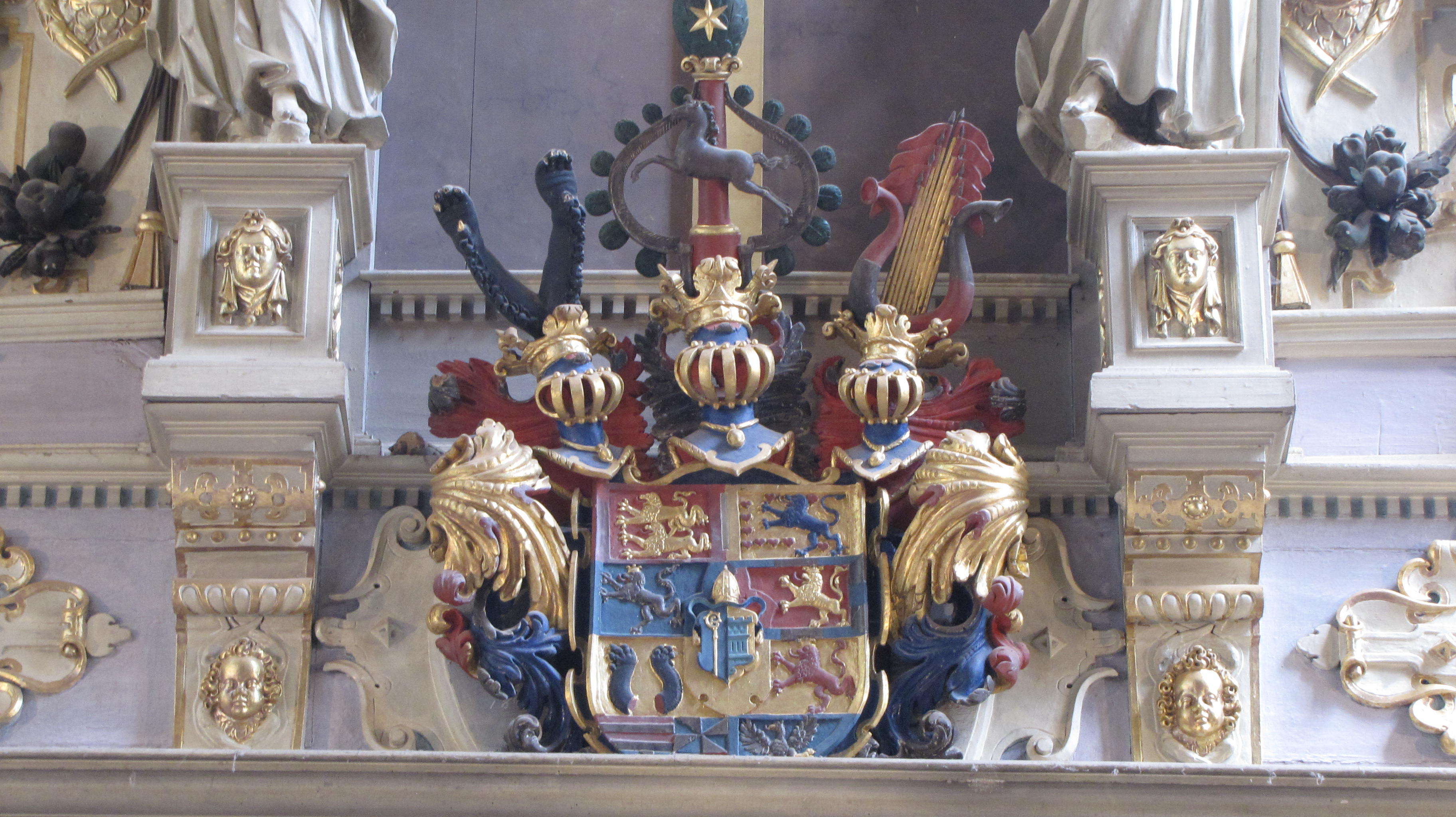 Coat of arms of Augustus the Elder, Duke of Brunswick-Lüneburg as administrator of Ratzeburg, top of Altar in St. Laurentius, Schönberg